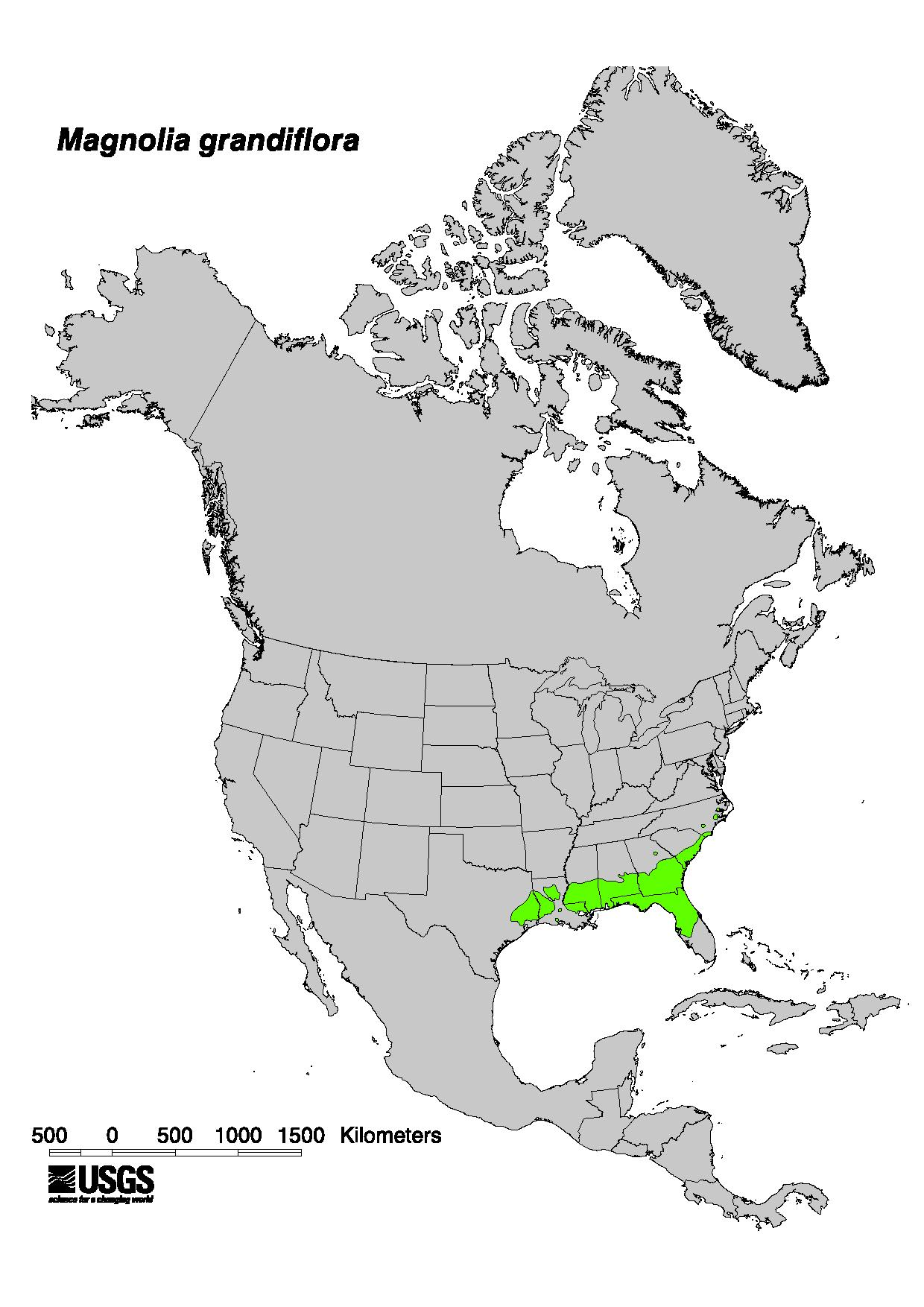 Magnolia grandiflora Range Map Digital representation of "Atlas of United States Trees" by Elbert L. Little, Jr. 1999. U.S. Geological Survey. [1]